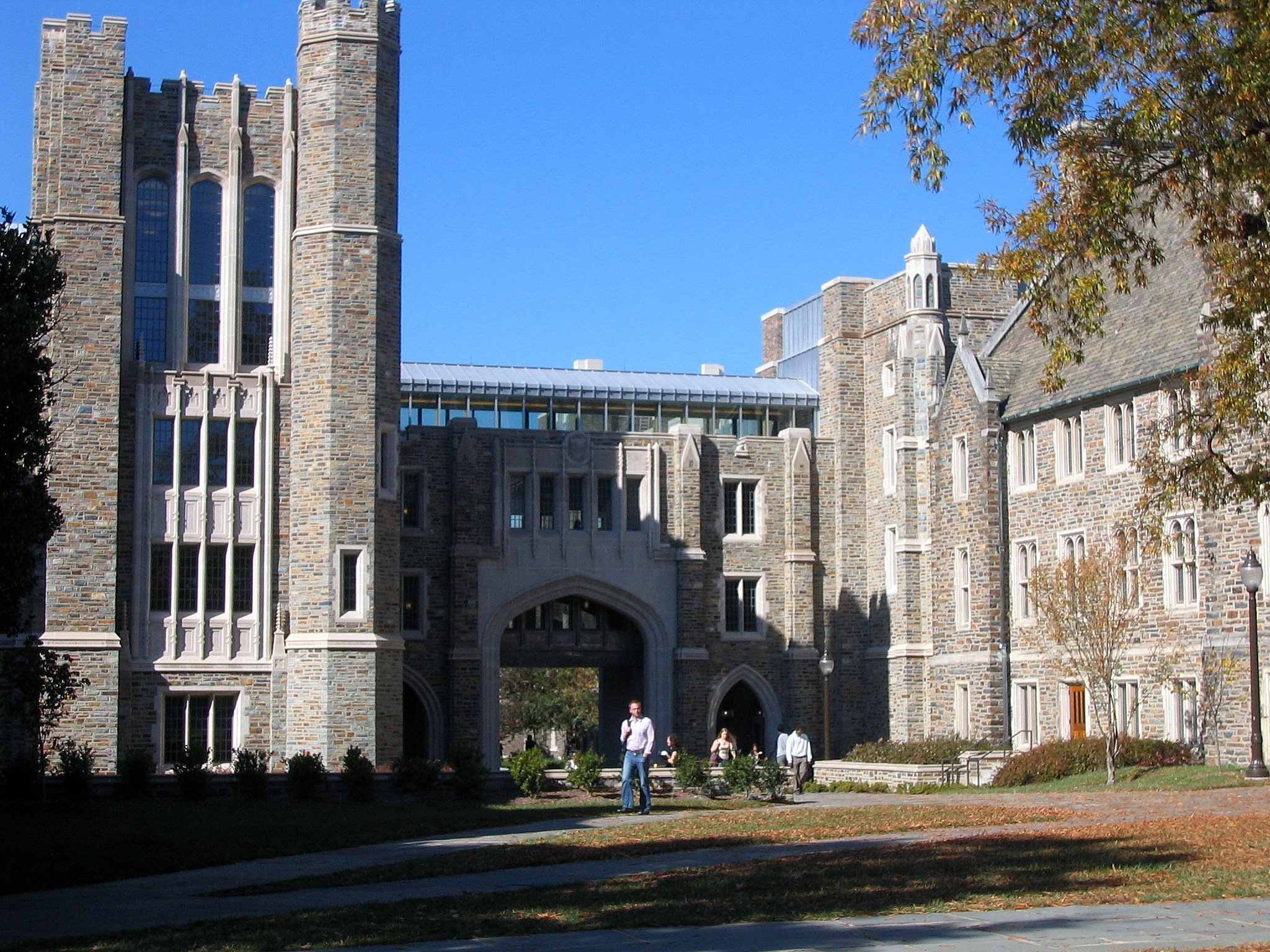 Entrance to Bostock Library at Duke University